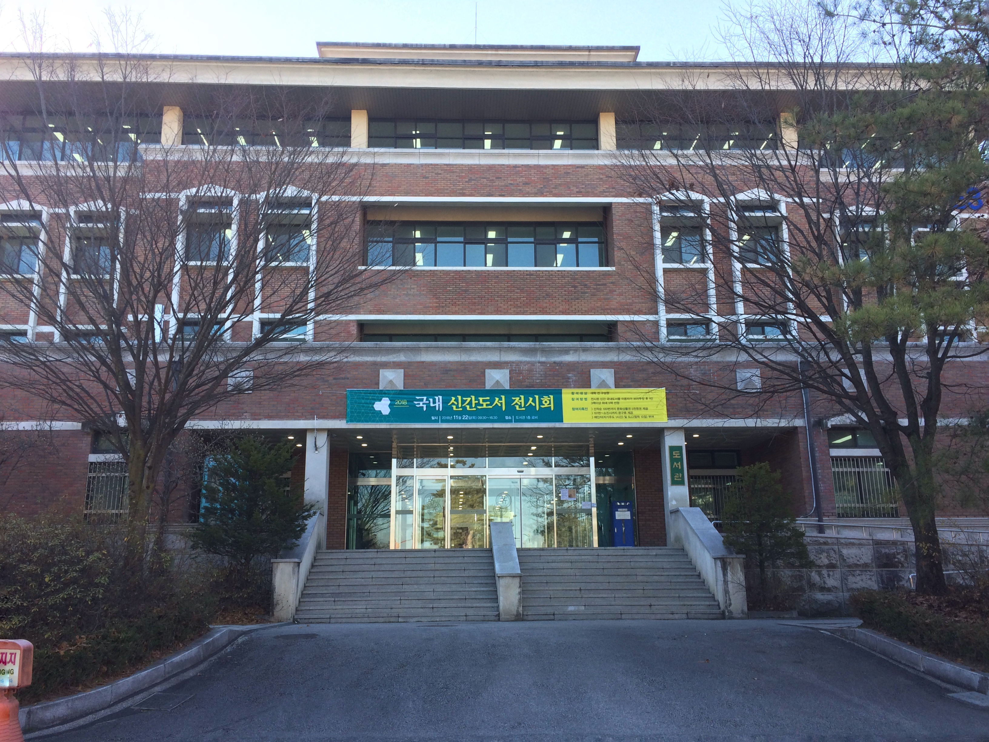 This photo shows Wonju Library at Gangneung-Wonju National University.